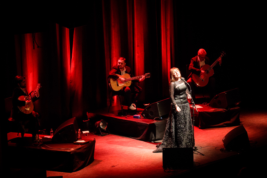 Katia Guerreiro at Cosmopolite. The concert took place on 26. January 2018 in Oslo. Lineup: Katia Guerreiro (vocal), Luís Guerreiro (Portuguese guitar), João Veiga (guitar) and Fernando Júdice (double bass).